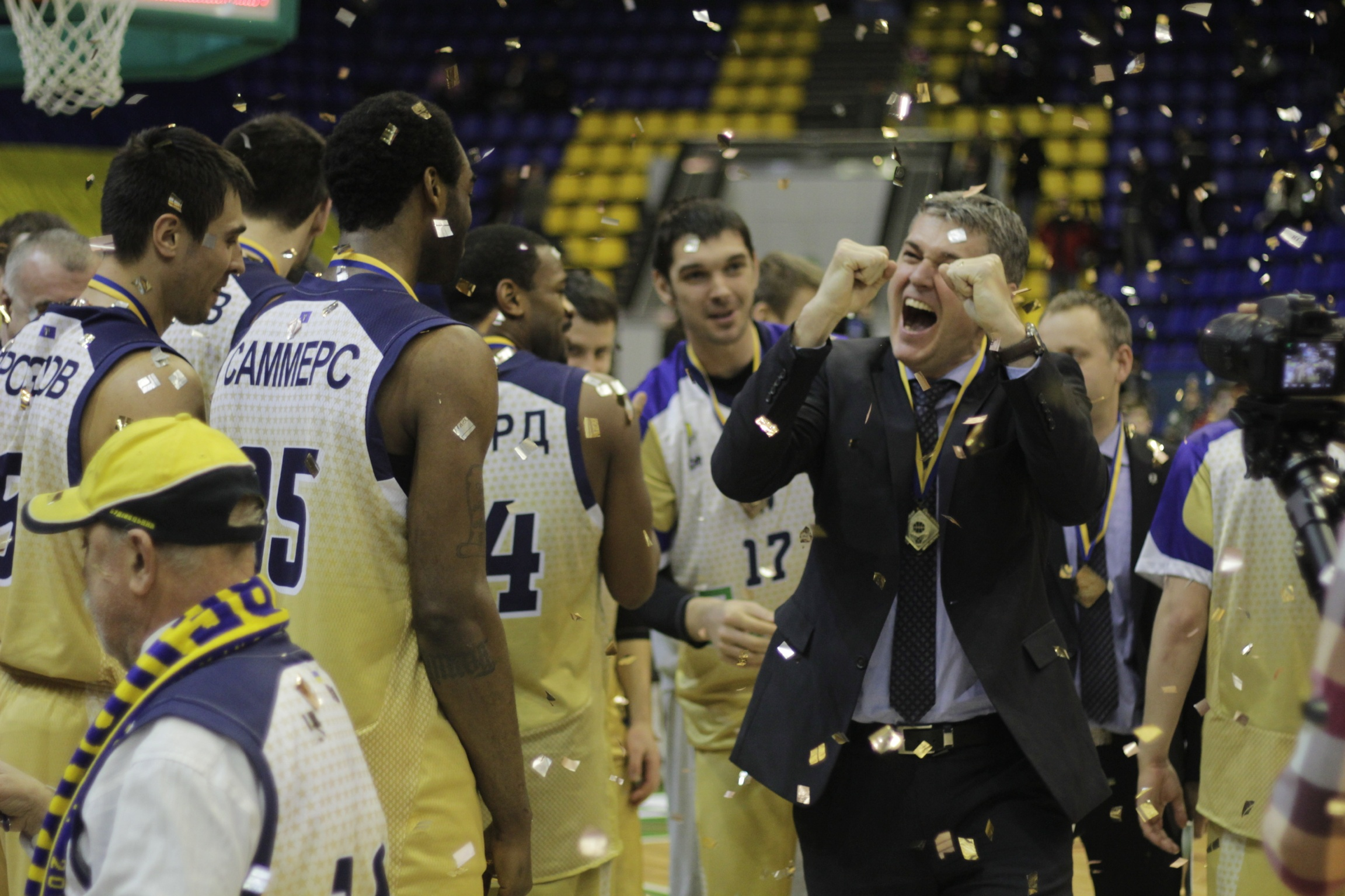 Ukranian Cup winner (2014)